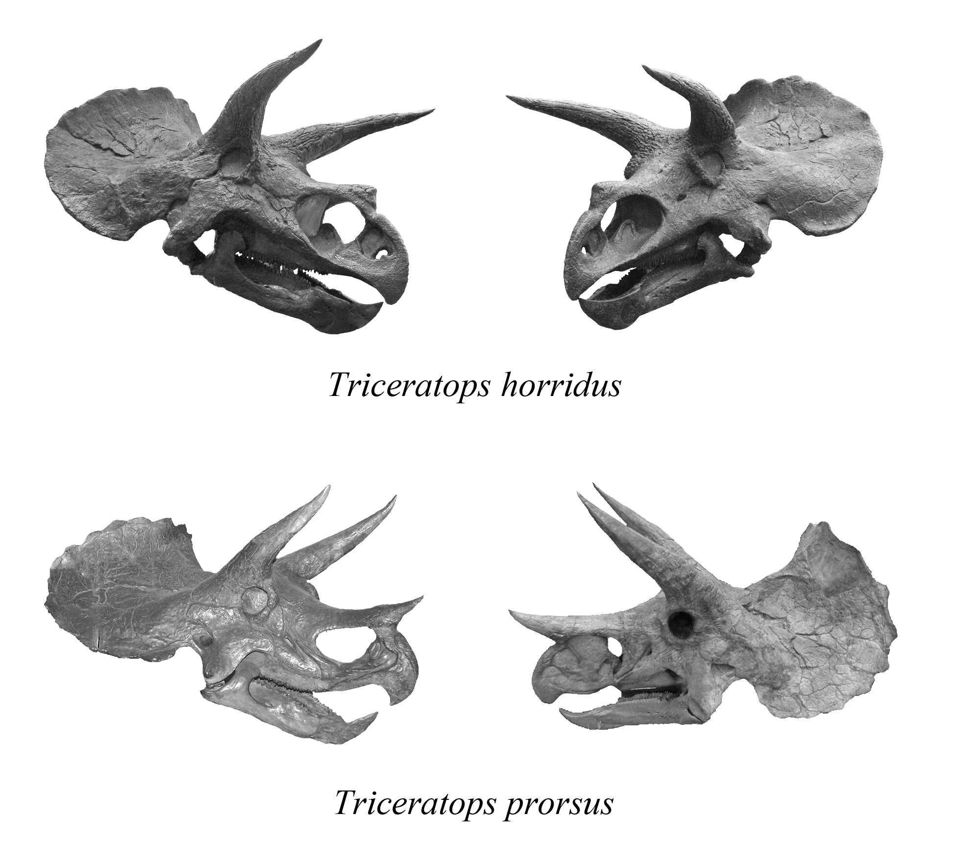 Triceratops טריצרטופס Top: Triceratops horridus (Smithsonian National Museum of Natural History) - left by Sabreguy29 (Flickr) and right by Scott (Flickr). Bottom: Triceratops prorsus (left - London's Natural History Museum, by Zachi Evenor) (right (jaw) - Yale Peabody Museum by Nicholas R. Longrich)